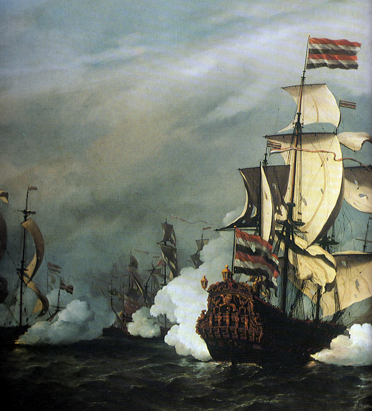 The Battle of the Texel, 11 August 1673